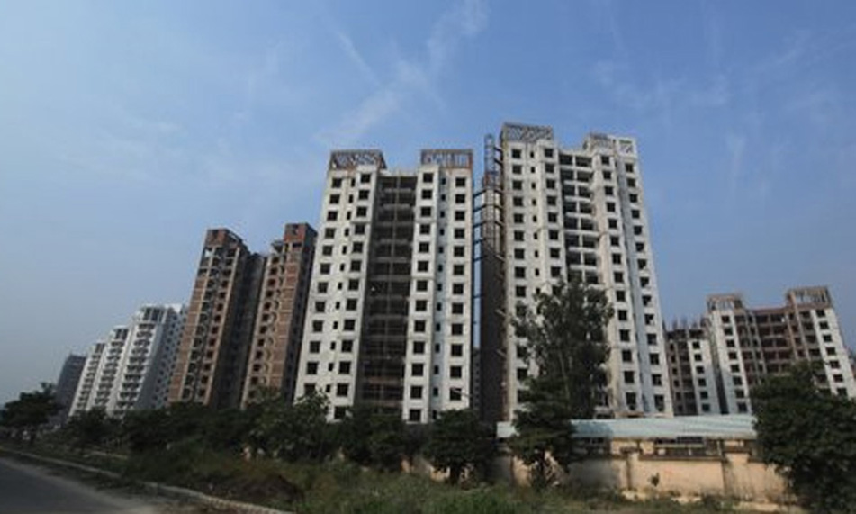 mvfhgvhvkhbbj